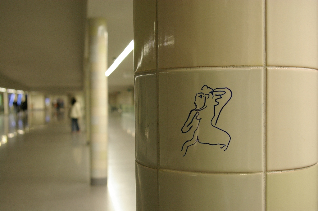 São Bento underground (subway) station in Porto, Portugal